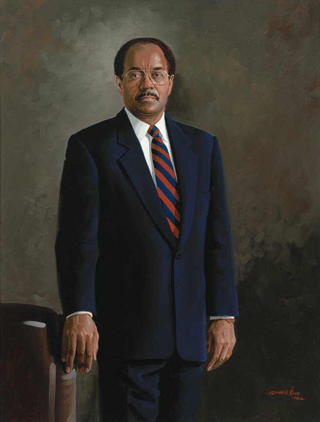 William H. Gray (Pennsylvania), member of the United States House of Representatives.